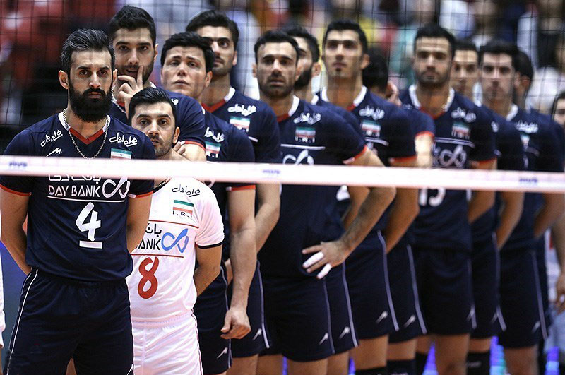 Iranian Volleyball player before a match against the Poland national volleyball team.